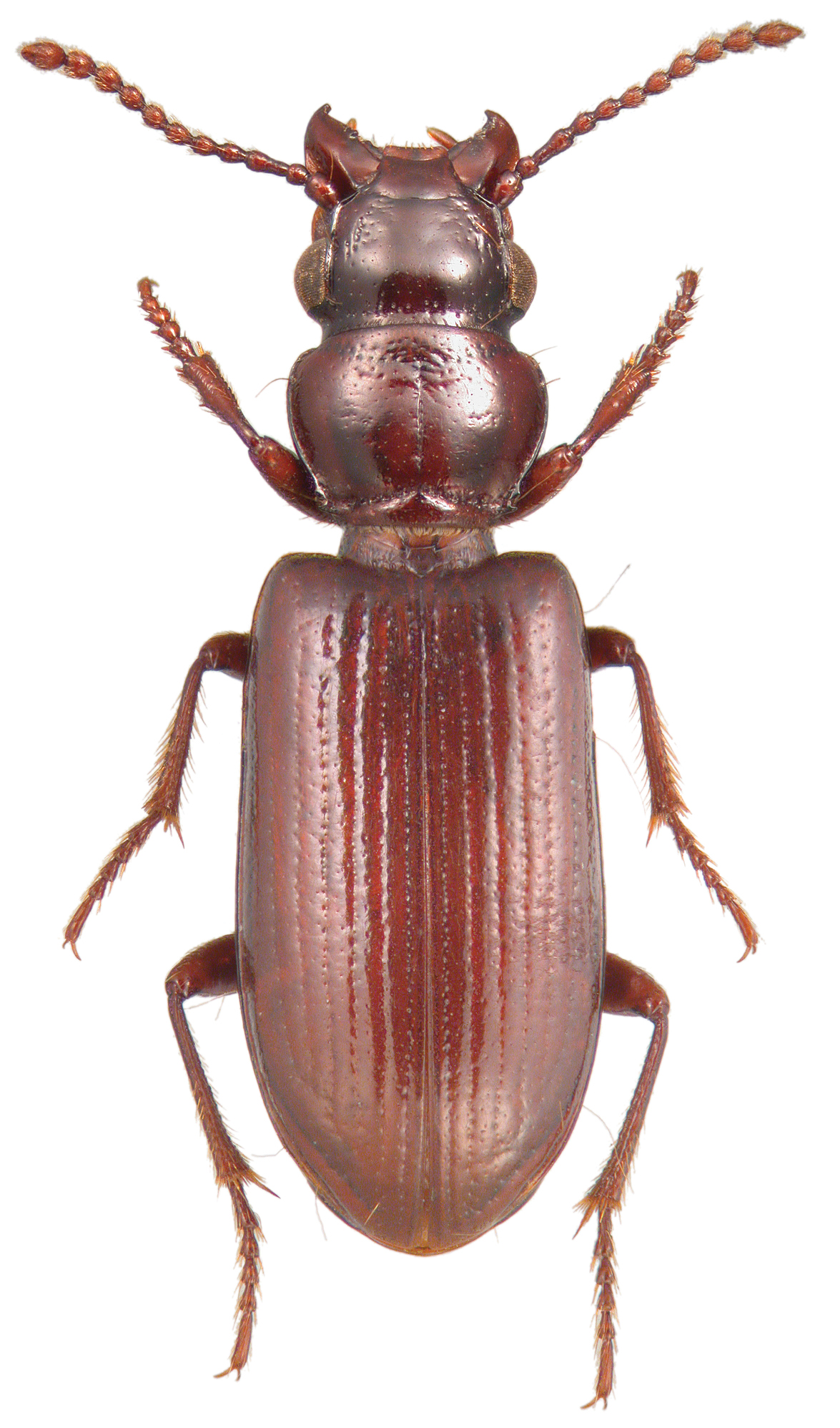 Nomius pygmaeus (Dejean). This species is known under the vernacular name “stinking beetle” because of the strong fetid smell that the adults produce. They are attracted to lights and sometimes find their way into houses. It was reported in the literature that at one occasion an entire village had to be evacuated because of the odor produced by these small beetles. The species was often listed as very common at light in the xix Century but is rare today. The species has an unusual range being found in North America and Europe and there is no evidence that it was transported by man from one continent to the other.